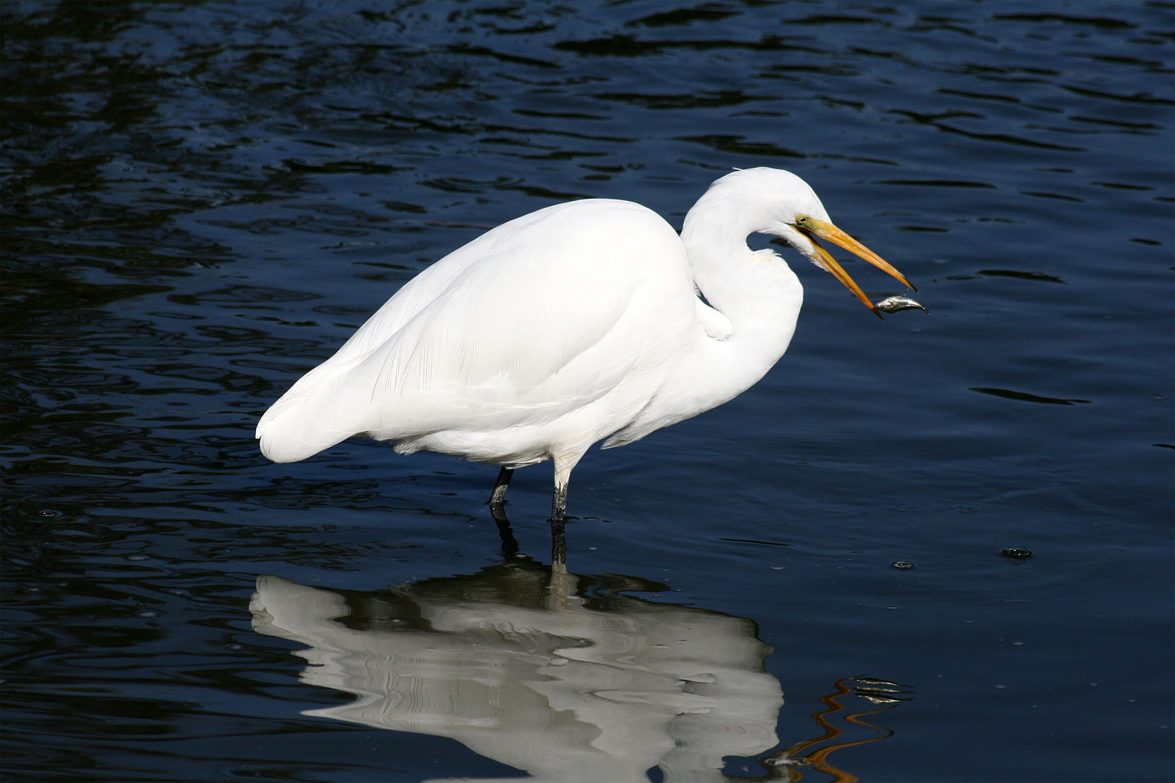 Great Egret (Ardea alba) joggling a fish.